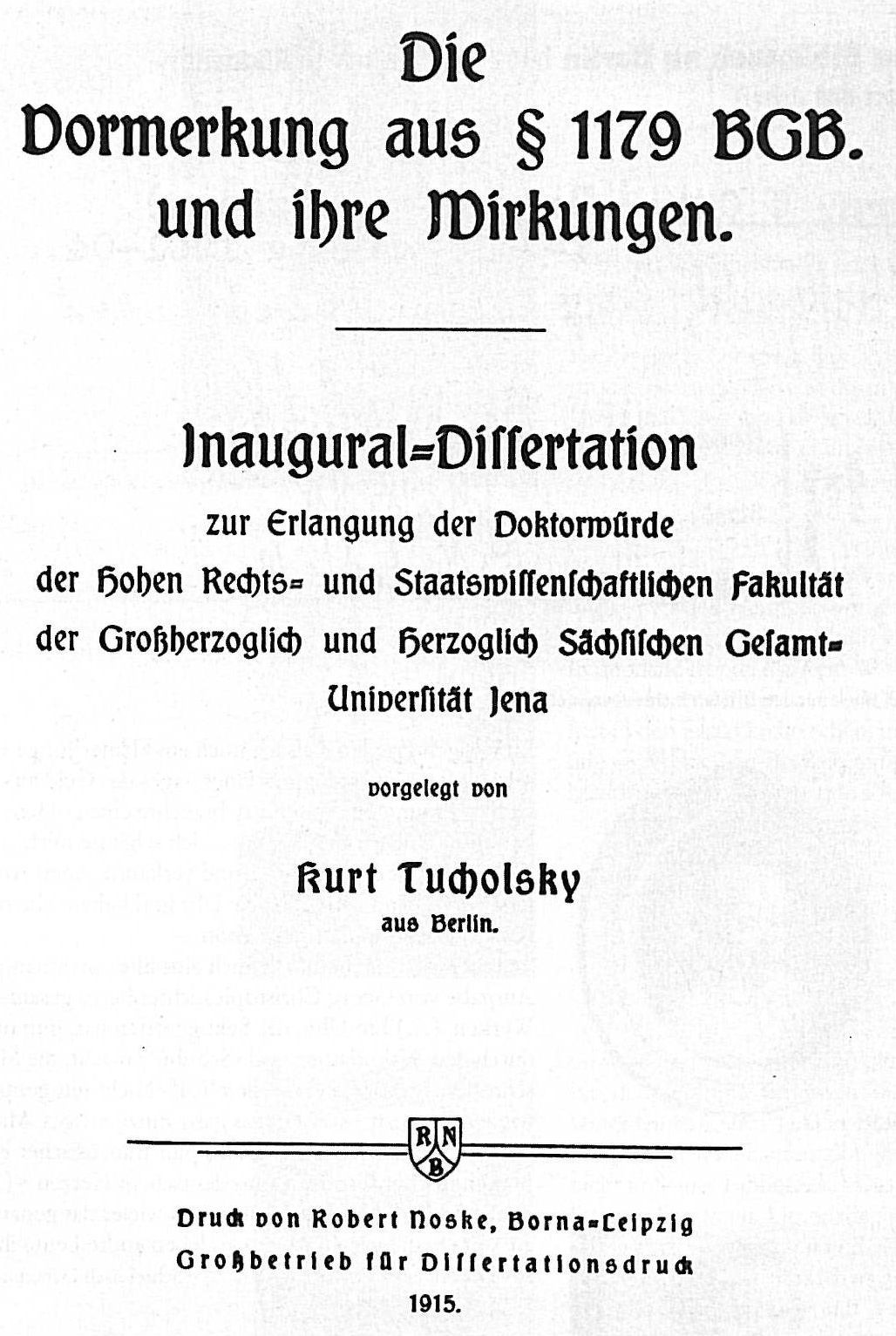 from the German author Kurt Tucholsky